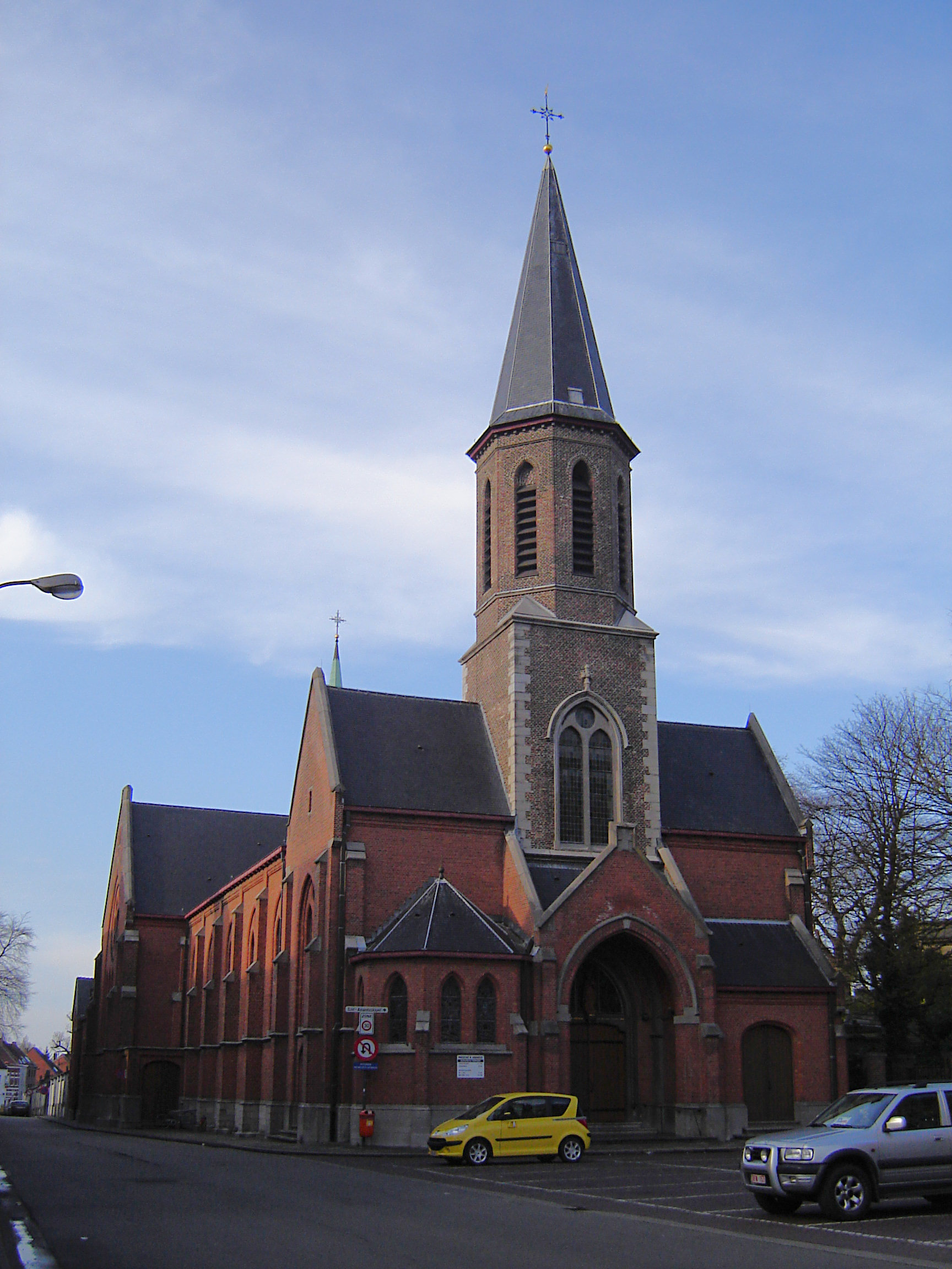 Church of Saint Amand in Sint-Amandsberg. Sint-Amandsberg, Gent, East Flanders, Belgium